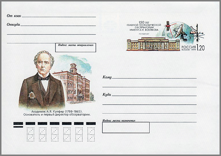 Russia, 1999. Envelope with commemorative stamp (EWCS) № 76. 150 years of the Main Geophysical Observatory named after Voeikov. Portrait of Academician A. Kupfer, observatory founder. Painter A. Shmidshteyn.